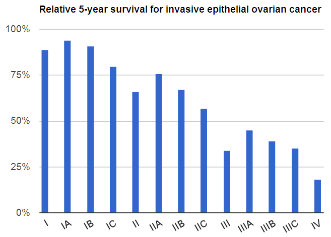 Relative survival of invasive epithelial ovarian cancer by cancer stage. Reference: Survival rates for ovarian cancer from - American Cancer Society. Last Medical Review: 10/18/2010. Last Revised: 06/27/2011.